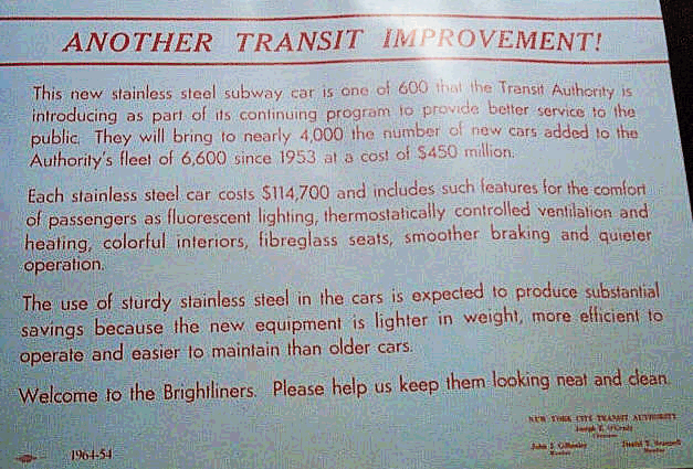 This poster was put in subway cars by the New York City Transit Authority to inform riders of the new subway car order, the R32s.